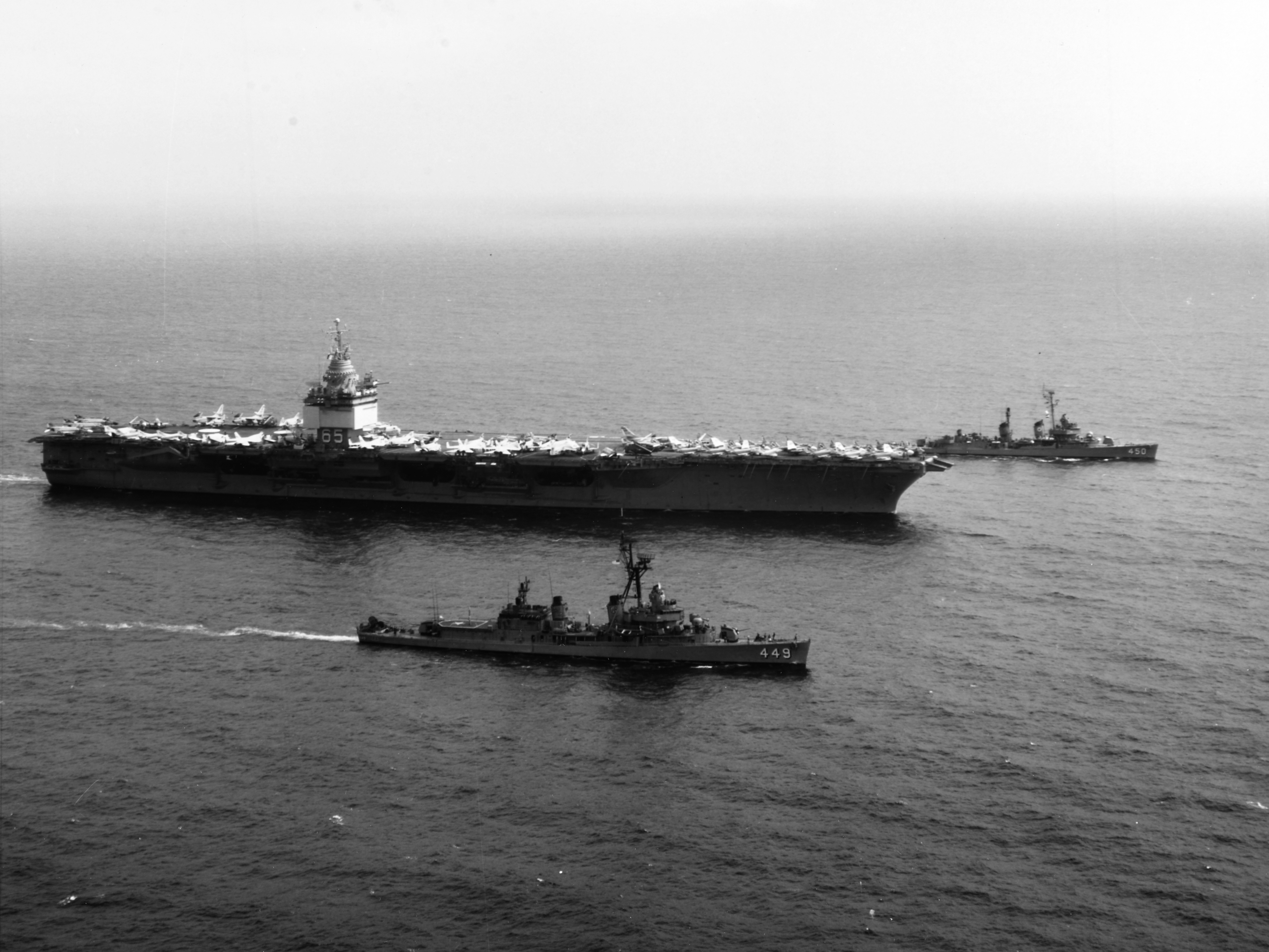 The U.S. Navy aircraft carrier USS Enterprise (CVAN-65) steams in formation with the destroyers USS Nicholas (DD-449) and USS O'Bannon (DD-450) in the Gulf of Tonkin, 6 March 1968. Enterprise, with assigned Attack Carrier Air Wing 9 (CVW-9), was deployed to the Western Pacific and Vietnam from 3 January to July 1968.